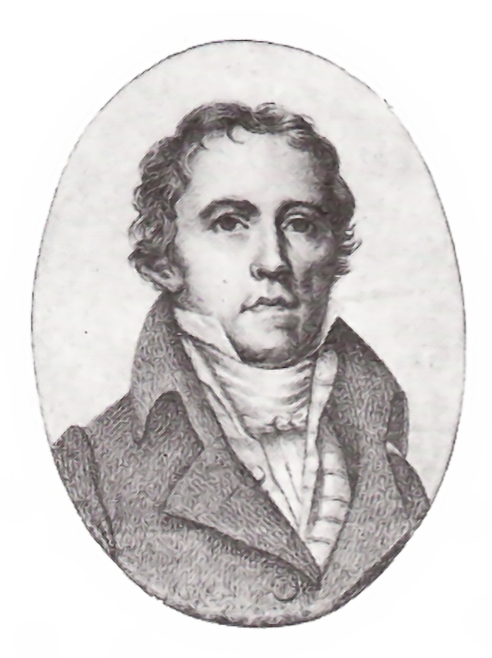 Nicolas Lupot, a french luthier.